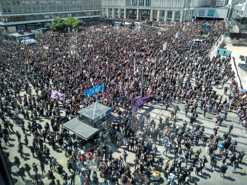 photo from the Black Lives Matter demonstration in Berlin on 2020-06-06